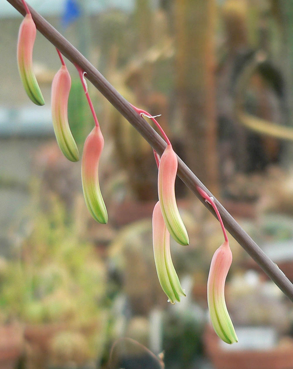 Photo of Gasteria pillansii at the University of California Botanical Garden